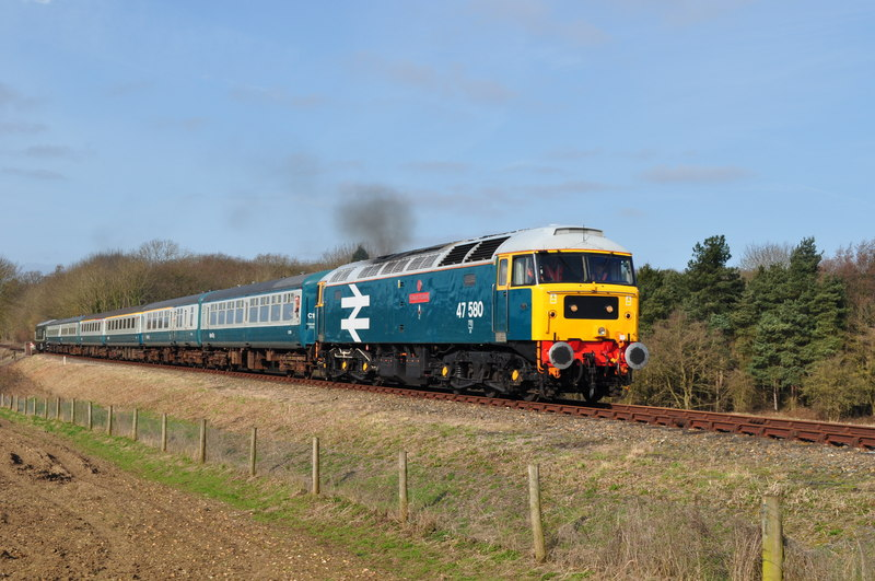 47580 on the morning service to Wymondham Abbey The 9:00pm service during the Mid Norfolk railway spring diesel gala. Pictured at Crownthorpe, the field margins are open under the country stewardship scheme. Behind is 6 mark 2 coaches and a class 46. This is a good example of a London to Norwich train in the 1970s/80s (apart from the 46 of course). Built :: Brush Falcon Works Production Order :: September 28th 1962 Works Number :: 524 To traffic :: September 1st 1964 D1762 :: September 1st 1964 47167 :: December 1973 47580 :: May 1980 47732 :: June 1994 47580 :: June 28th 2008